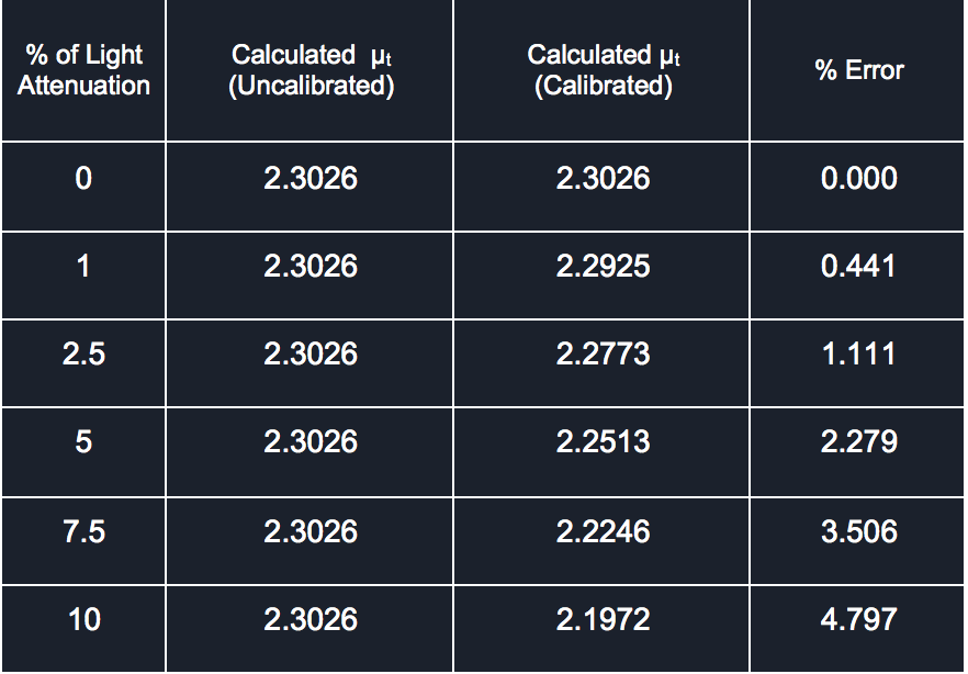 Error associated with no calibration